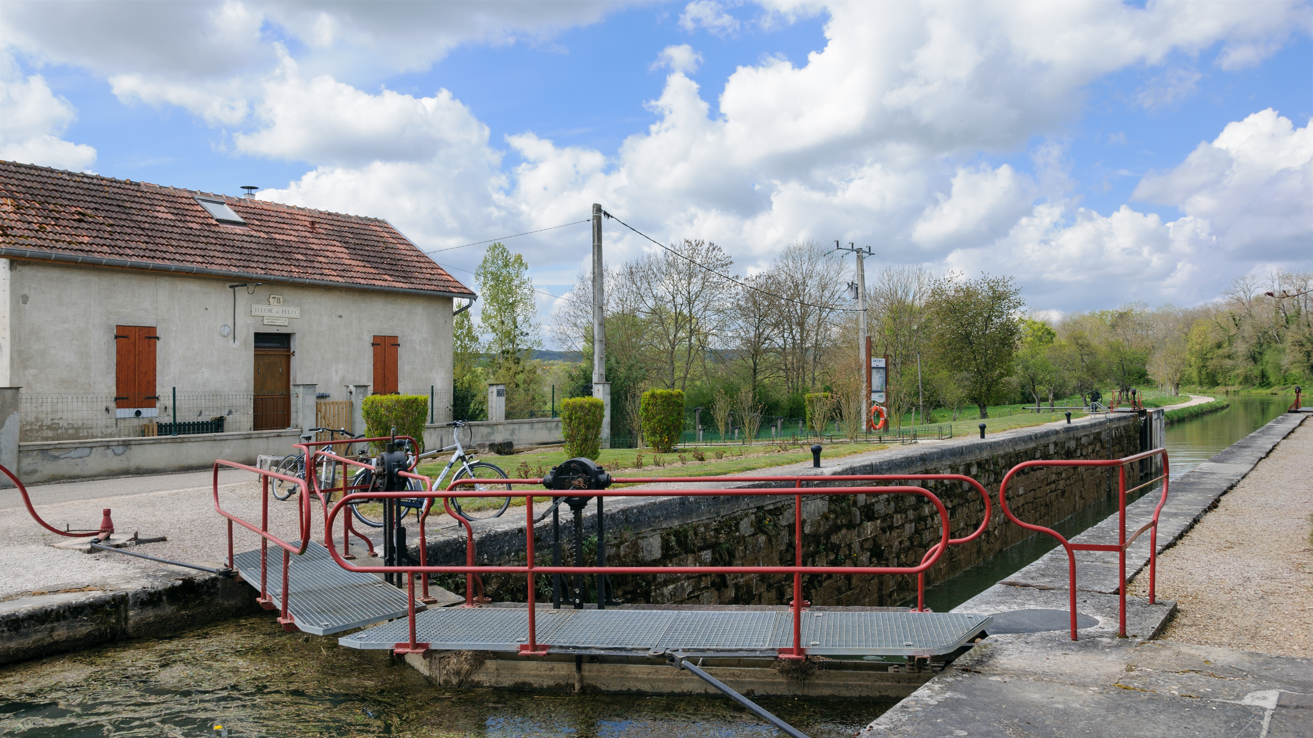 The lock n. 78 of Fulvy on the Burgundy Canal (Canal de Bourgogne), Burgundy, France.